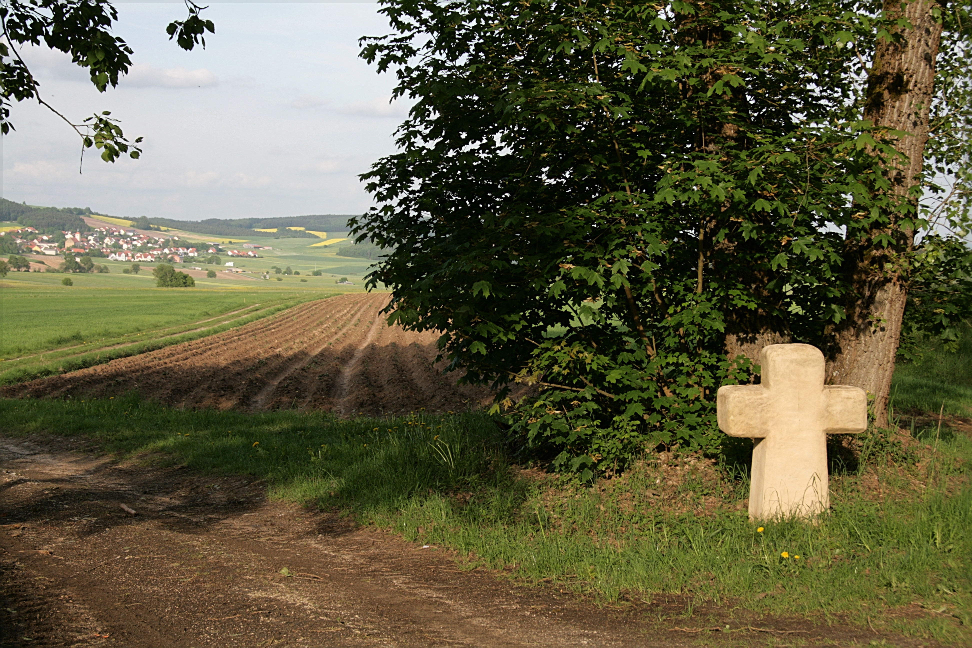 Waysidecross Schwedenkreuz or Schwedenstein, Hirschau-Ehenfeld, Bavaria, Germany